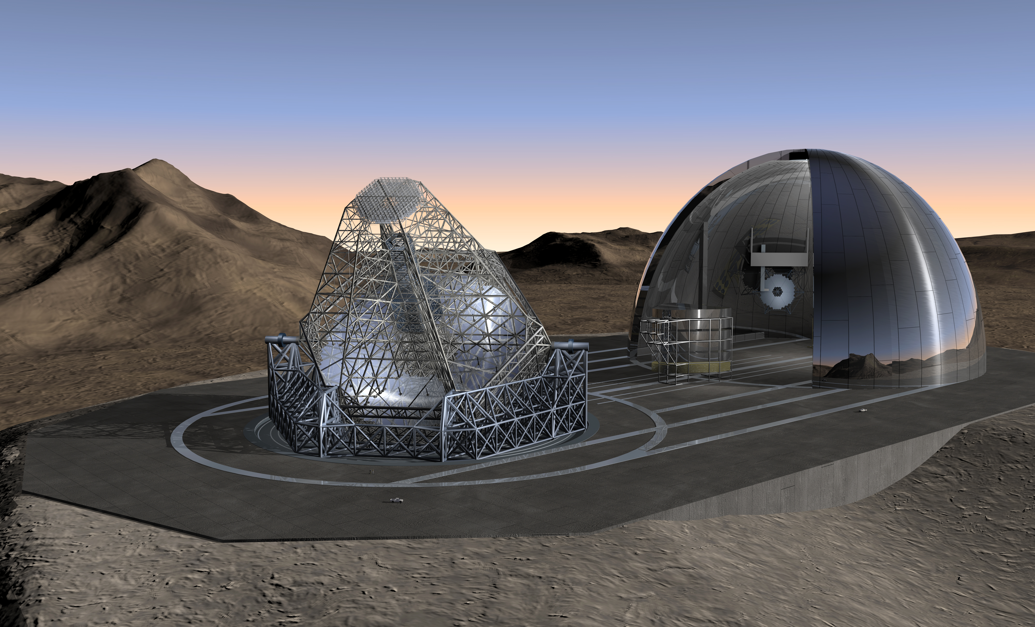 OWL Panorama Another panoramic view of the facility. The handling system for the secondary mirror is visible inside the retracted, partially open enclosure.